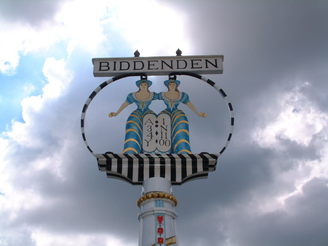 The Biddenden Maids. Plaques attached to the sign read: Eliza and Mary Chulkhurst the famous twins known as the Biddenden Maids were born in the year 1100 joined together at hips and shoulders. They lived together thus joined for 34 years when one of them was seized with a fatal illness and died. The other refusing to be separated died 6 hours later. By their Will they left their property to the poor of Biddenden. In commemoration of the Biddenden Maids an annual distribution of bread and cheese takes place on Easter Monday morning from the old bakehouse. Biscuits bearing the impress of the two maids, their names and year of birth are available at the same time to all who apply, visitor and parishioners.